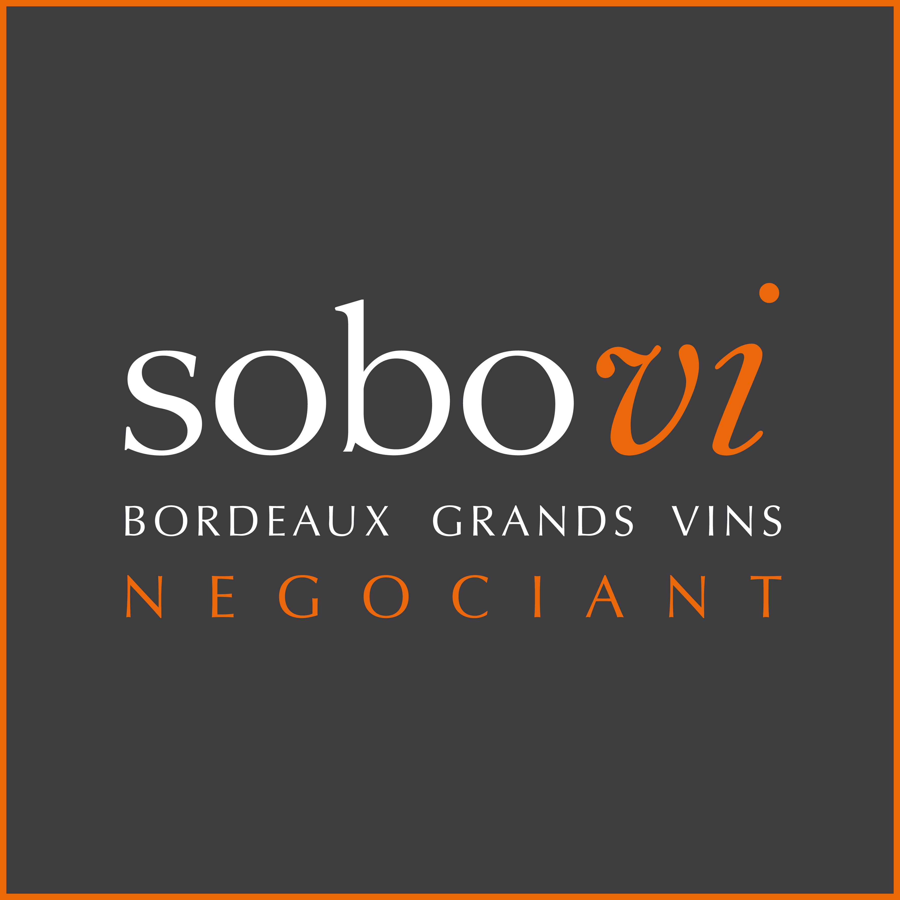 Logo Sobovi